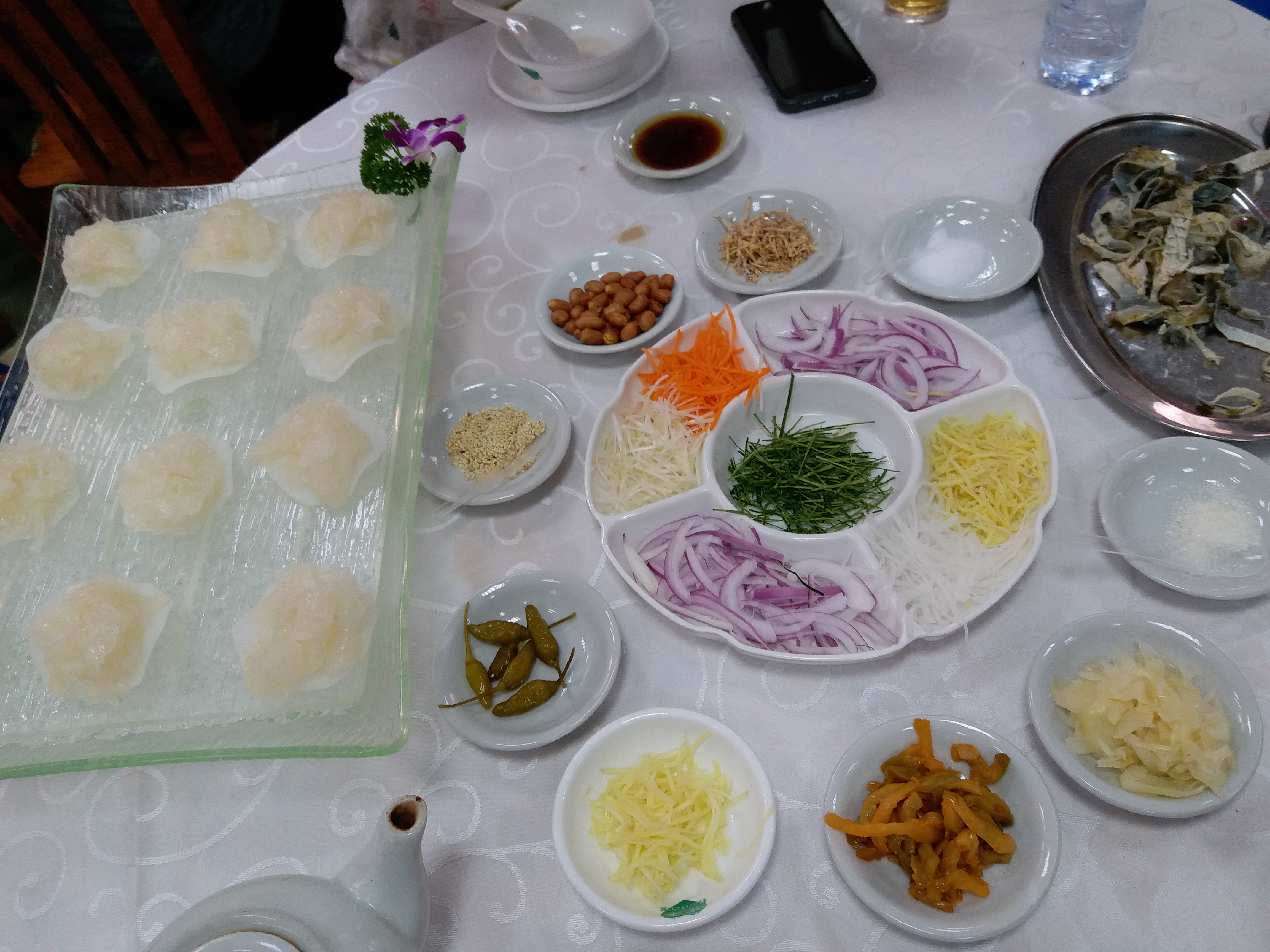 This photo has been taken in the country: China